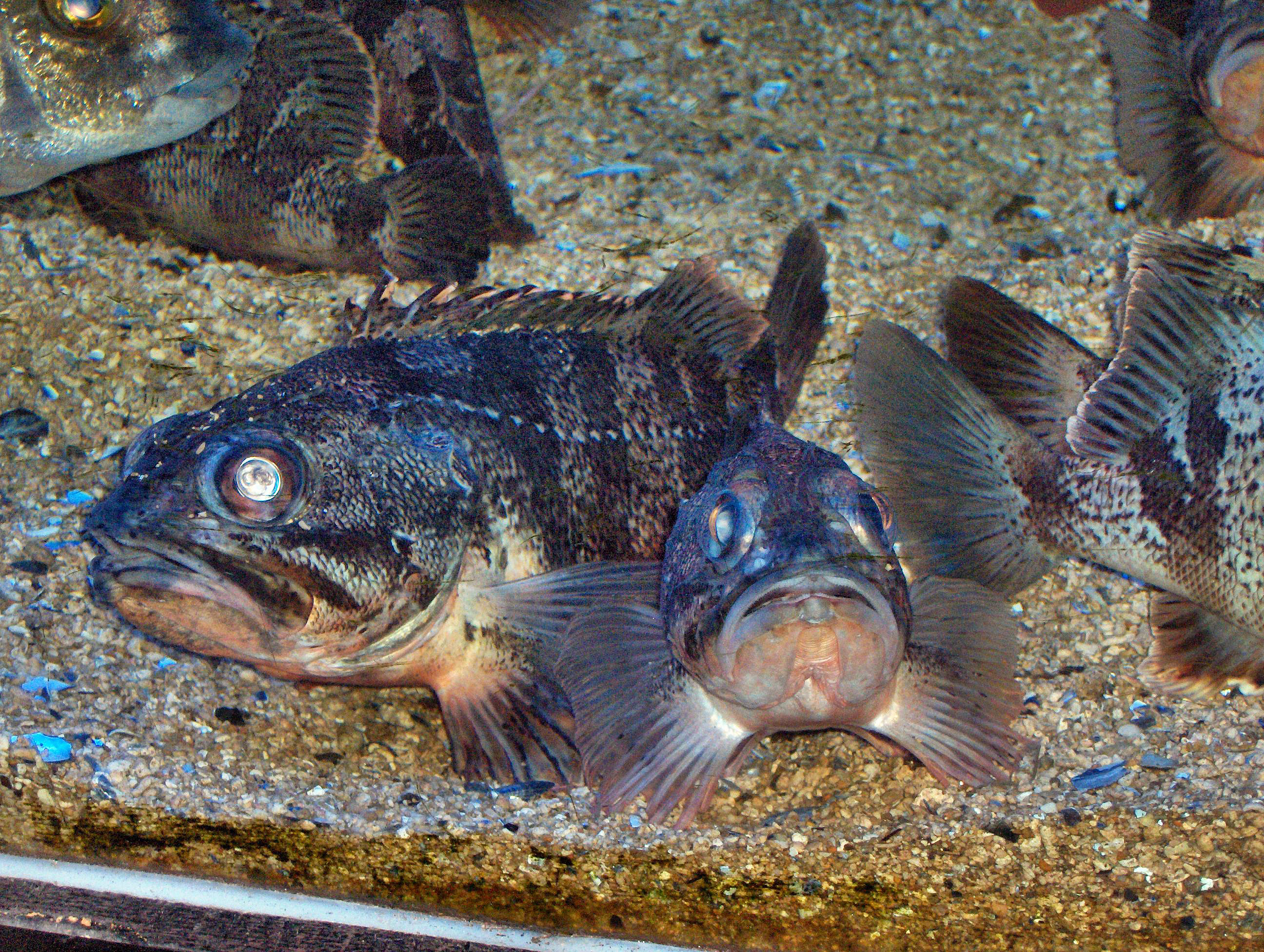 White striped grouper (Epinephelus aeneus); Musée Océanographique de Monaco